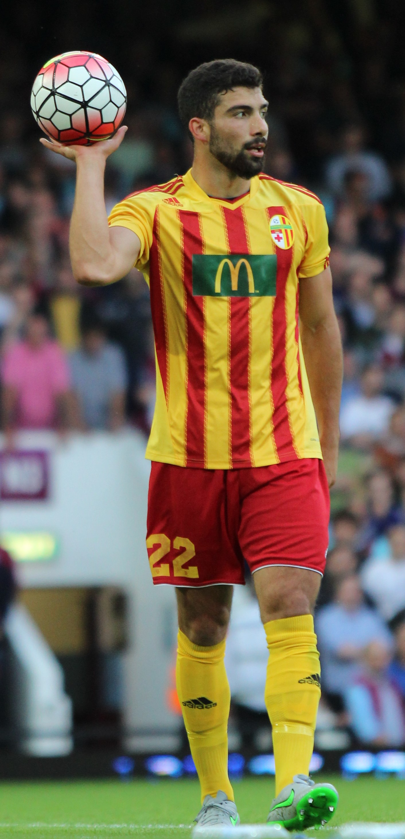 Zach Muscat of Birkirkara prepares to take a throw-in against West Ham.